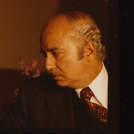 The photo contact sheet, identified as A4852 by the White House Photographic Office (WHPO), is housed at the Gerald R. Ford Presidential Library, a branch of the National Archives and Records Administration (NARA). This file is a 200 dpi photo contact sheet having images from roll of film A4852 of the August 9, 1974 - January 20, 1977 Gerald R. Ford White House Photographic Office Series A0001-A9999 and B0001-B2886 photographs. The date on the photo contact sheet is the date the roll of film was processed, not necessarily the date the photographs were taken. See table below for additional details.